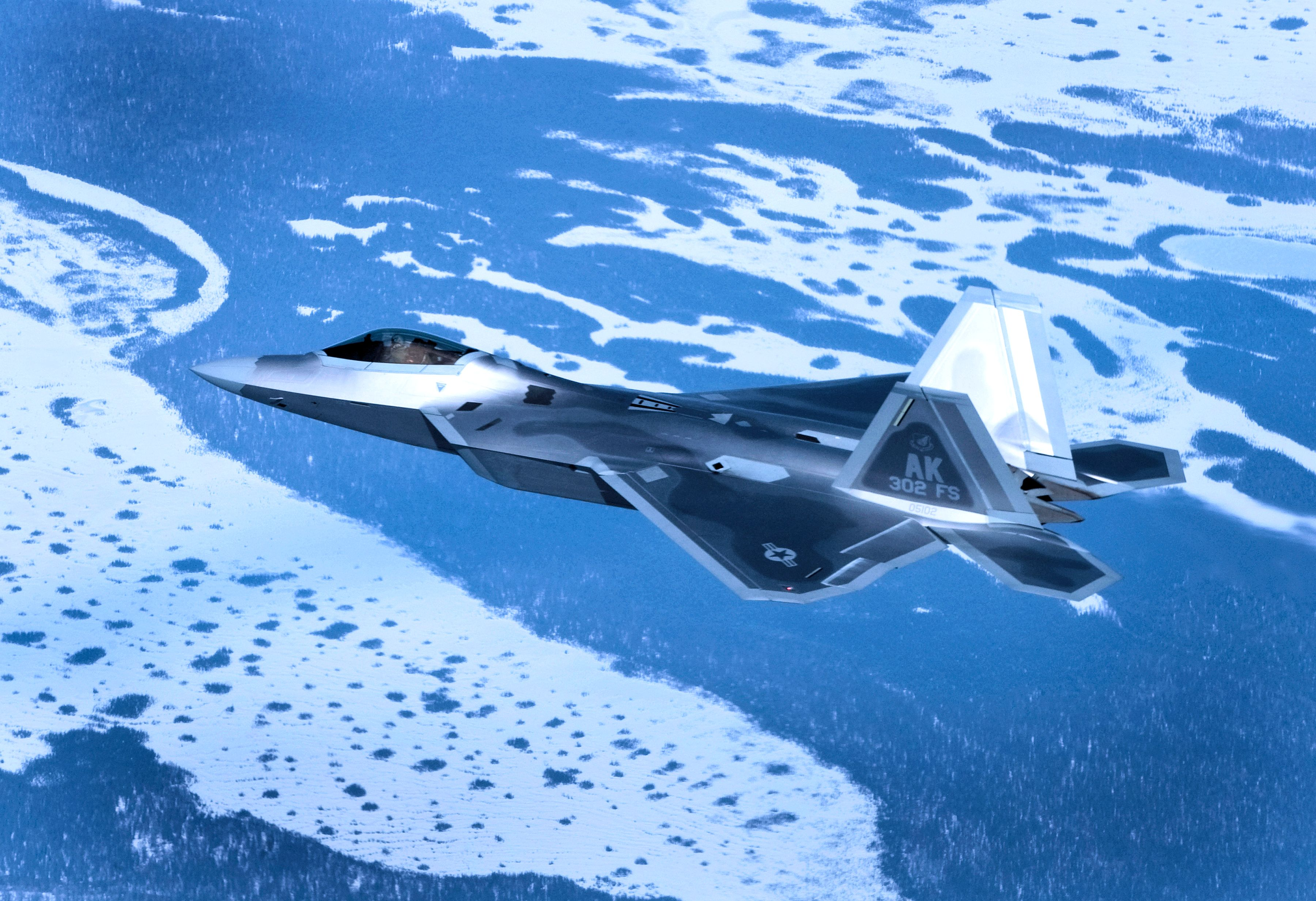 An F-22 Raptor flies above Anchorage during a routine training mission. This F-22 represents Air Force Reserve Command's first F-22 Associate Unit located at Elmendorf Air Force Base, Alaska. The 302nd Fighter Squadron stood up in October 2007 and belongs to the 477th Fighter Group. (U.S. Air Force photo/ Tech. Sgt. Keith Brown)